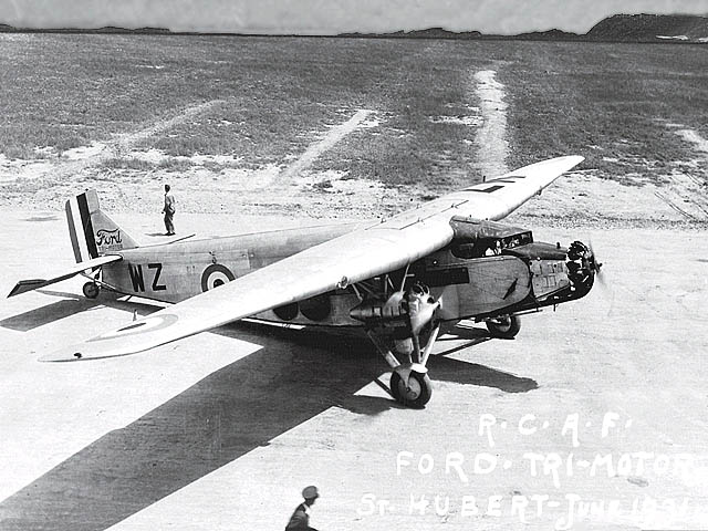 Royal Canadian Air Force Ford 6-AT-AS Tri-Motor (G-CYWZ c/n 6-AT-1), St-Hubert, june 1931